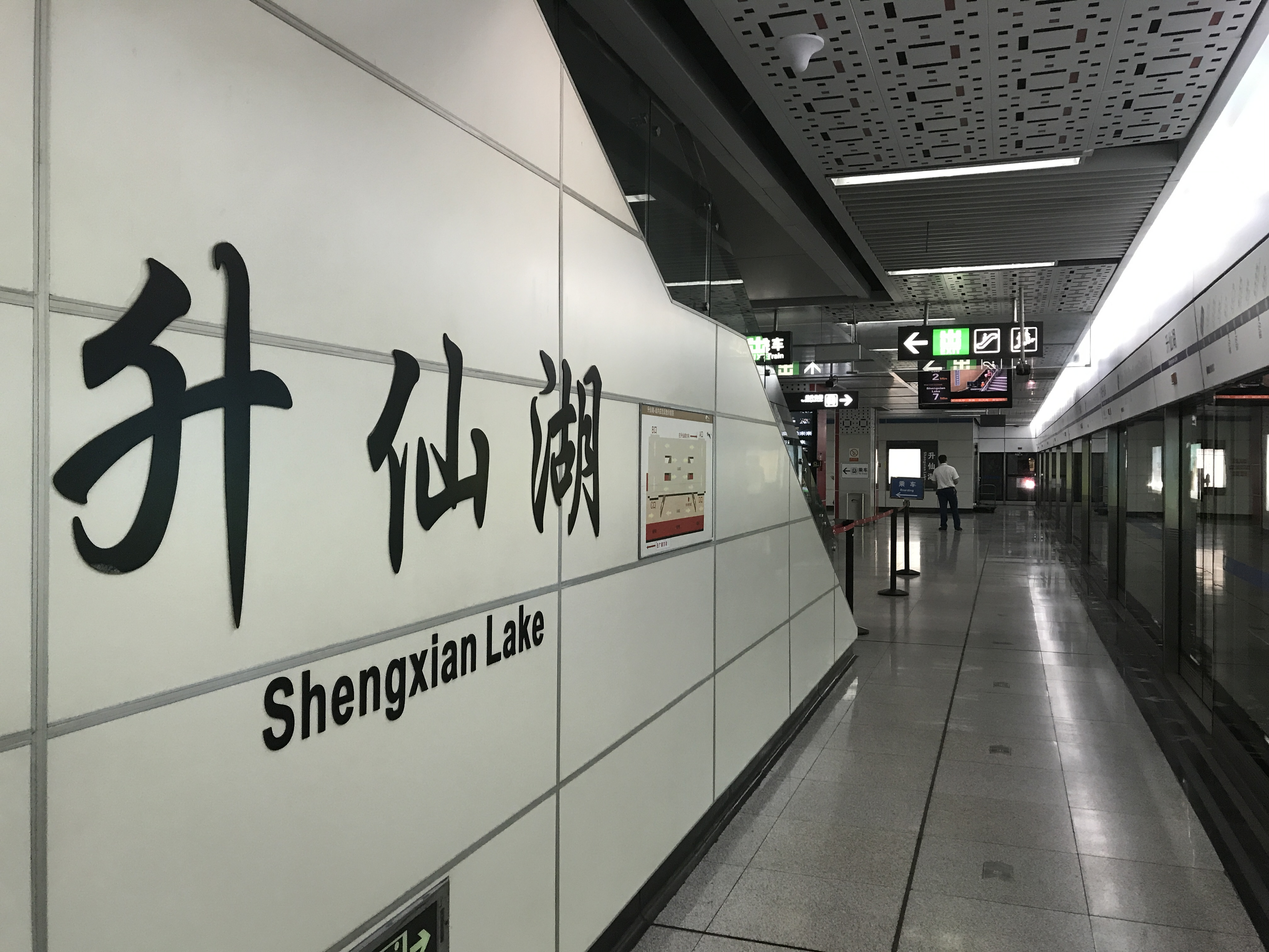 Platform of Shengxian Lake Station, Chengdu Metro